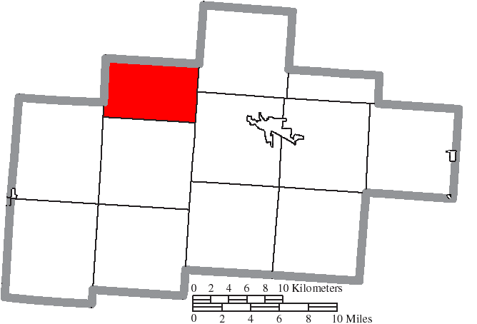 Map of the municipal and township boundaries of Hocking County, Ohio, United States, as of the 2000 census, with the location of Good Hope Township highlighted. Township borders are shown only in unincorporated areas in order to differentiate incorporated and unincorporated areas more clearly.